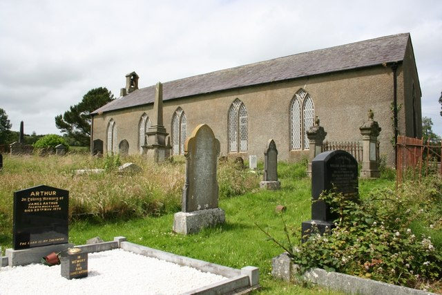 Taughboyne Parish Church Built on the site of an ancient monastery founded by St Baithin circa 56oAD, the parish church of Taughboyne is situated almost two miles north of the main town of St Johnstown.